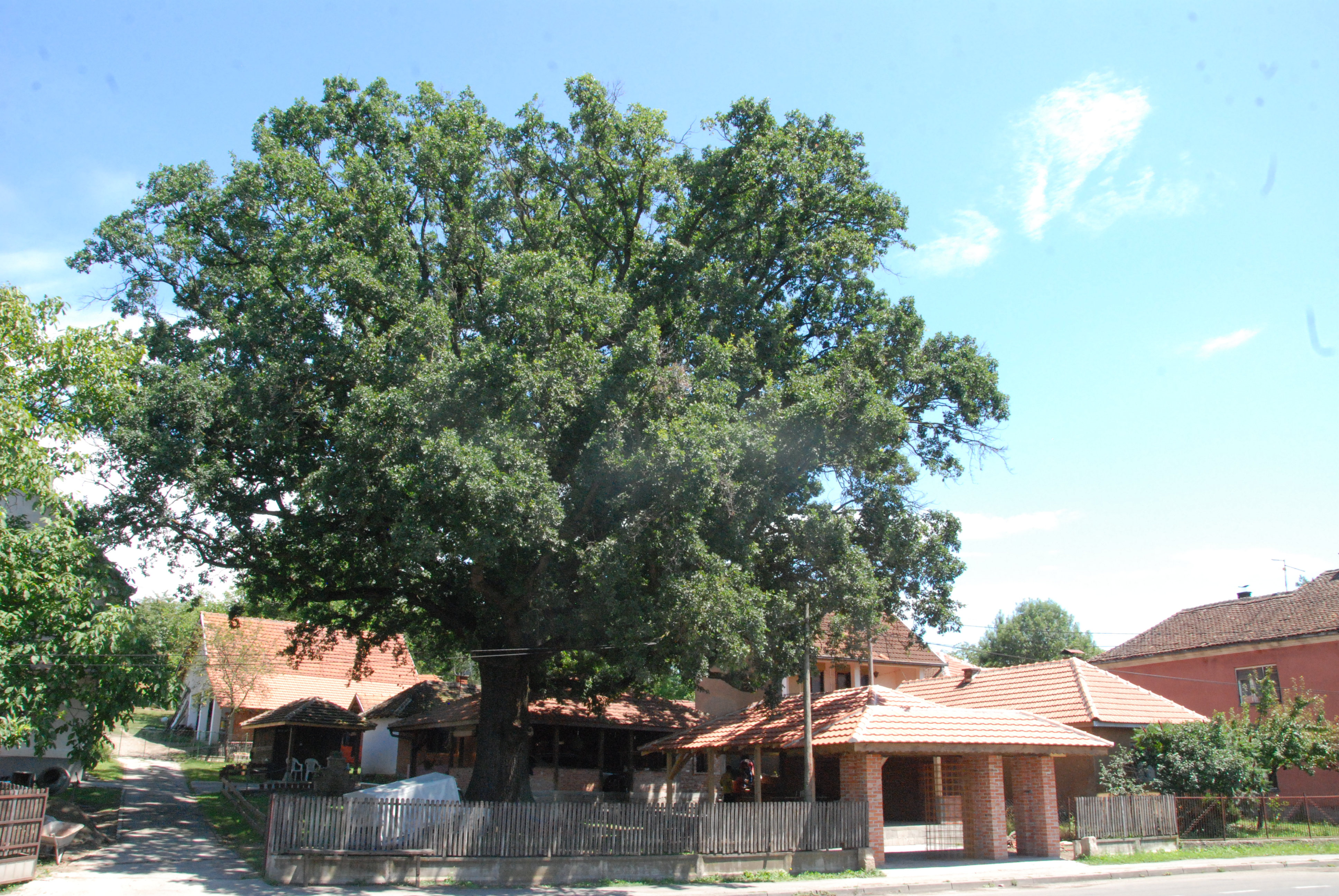 СП238 Oak of Timotijevic in village Mrcajevci